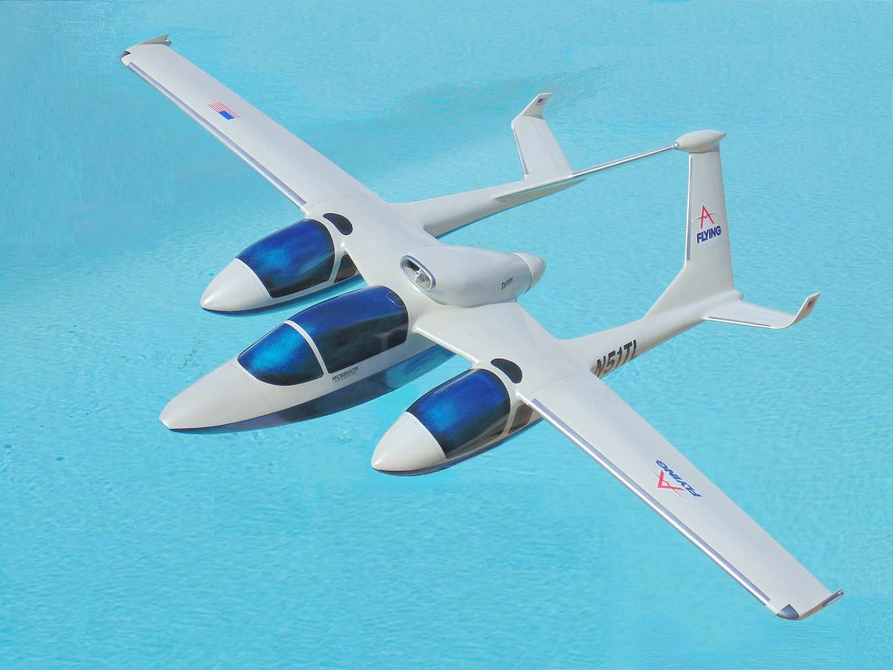 Photo by Charlee Smith of Micronautix